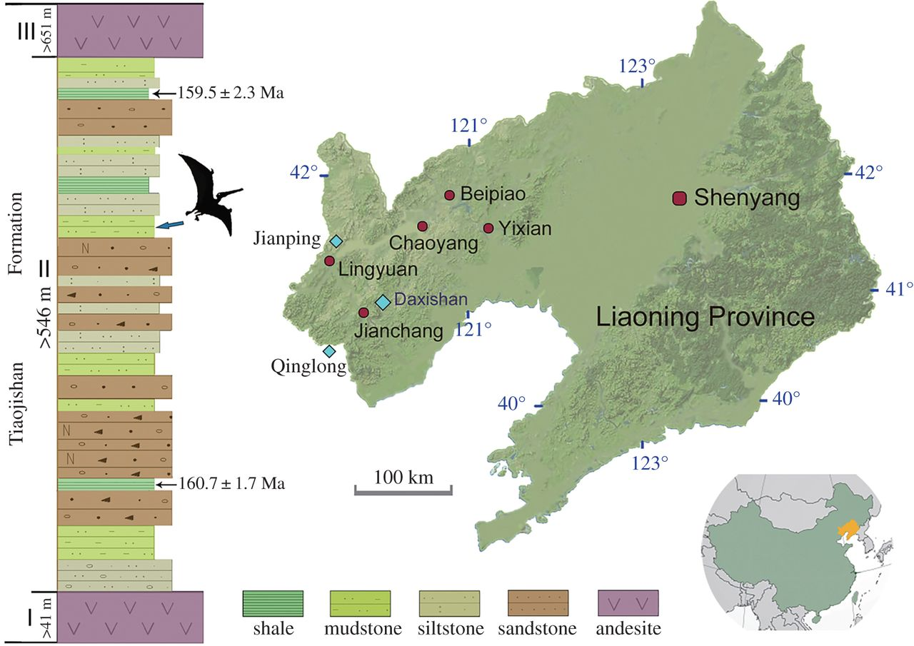 Figure 1. Map and geologic section showing the location of the Daxishan site (40°52′210″ N/119° 59′297″ E) in relation to the other two major fossil localities (Jianping and Qinglong) of the Tiaojishan Formation in Liaoning Province, northeastern China, and the stratigraphic horizon at which the new pterosaur specimen was collected. Isotopic dates are from references